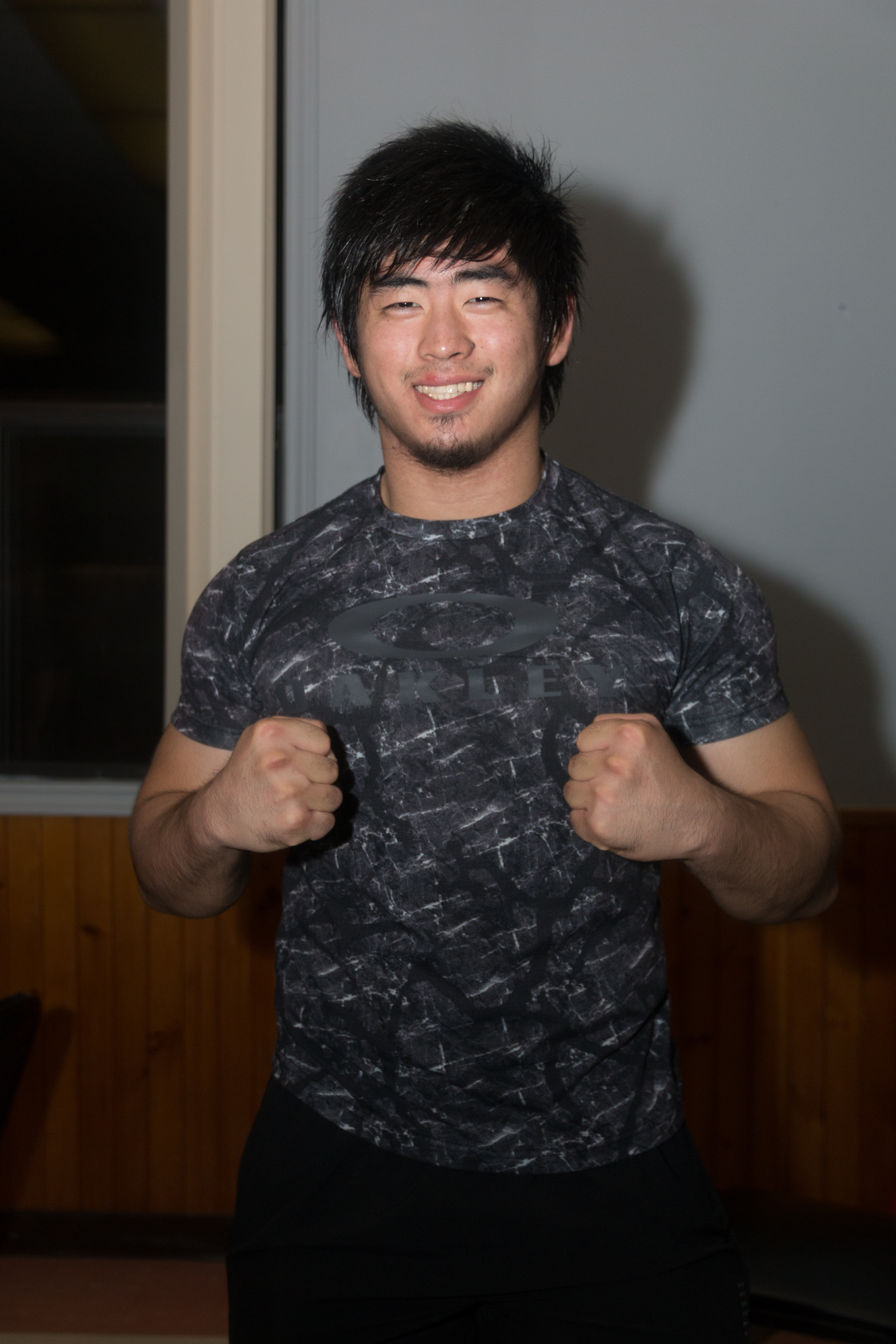 Wrestler Kaito Kiyomiya posing post-event at a PWA wrestling show in Guelph, ON